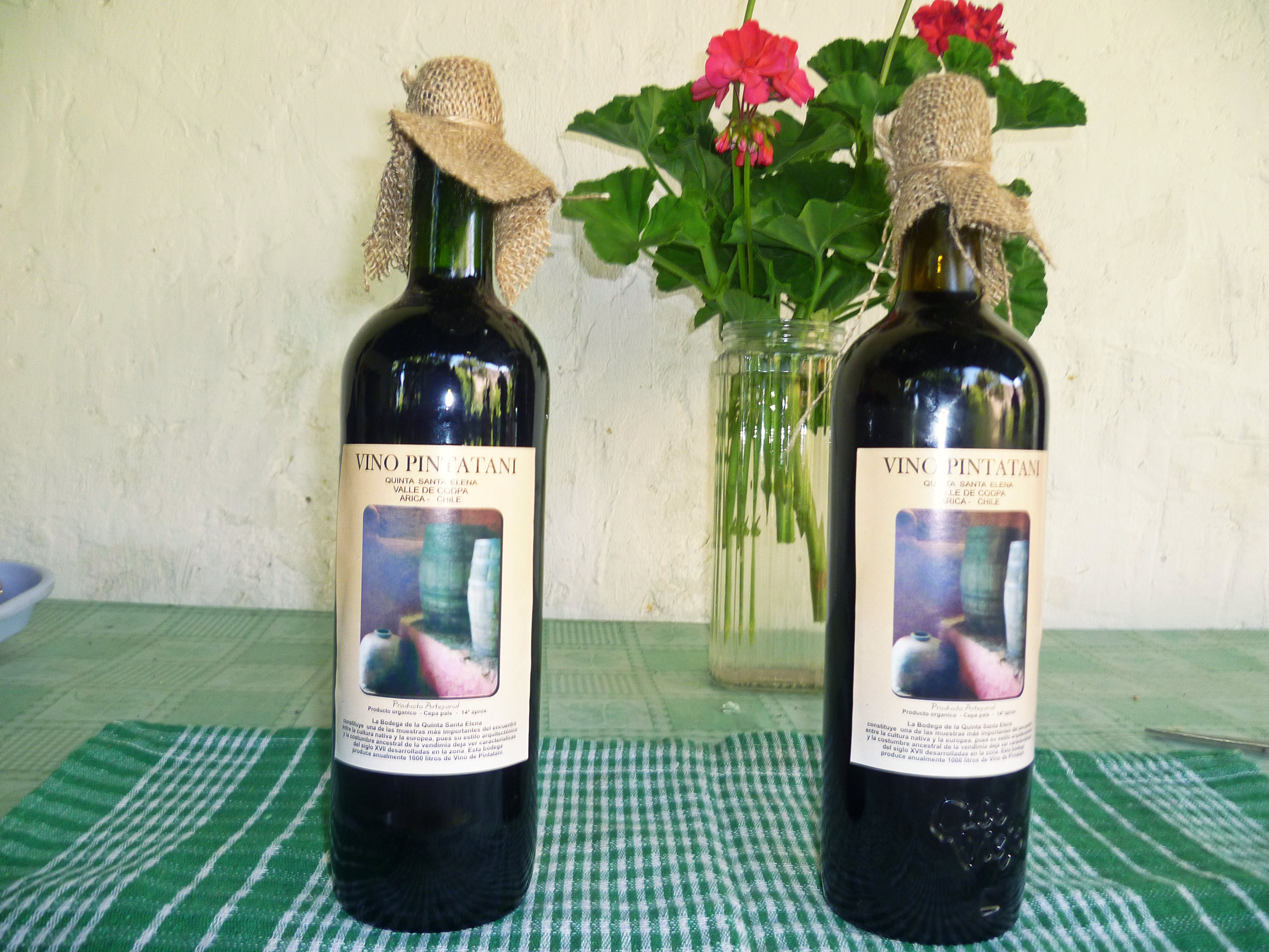 Vino Pintatani